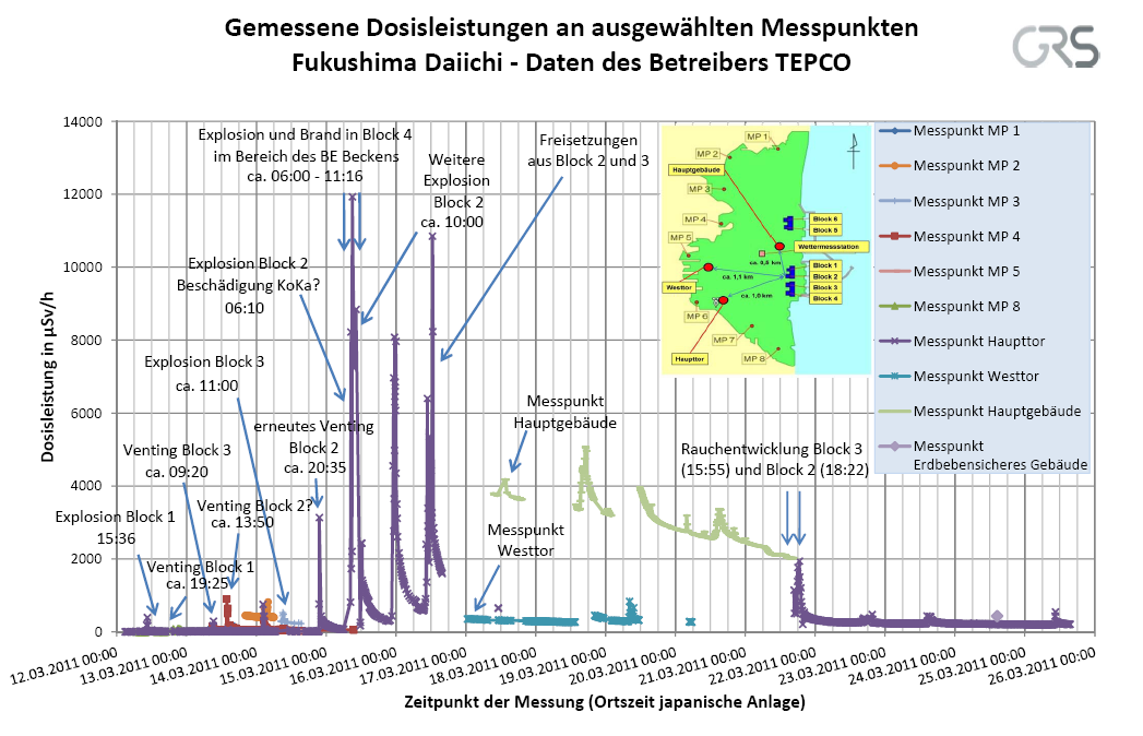 Radiation Monitoring data from Fukushima I nuclear power plant, March 11 to March 26, 2011